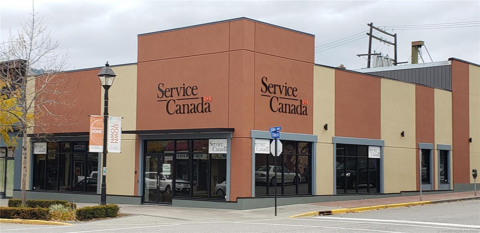 New Service Canada office opened in 2019